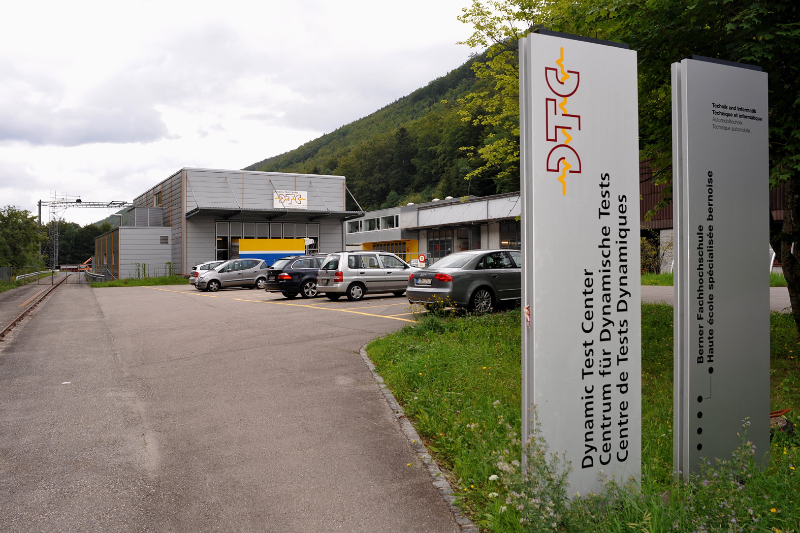 Berne University of Applied Sciences (BFH) Biel, Dynamic Test Center (DTC) building of the automotive engineering departement in Vauffelin; Berne, Switzerland.